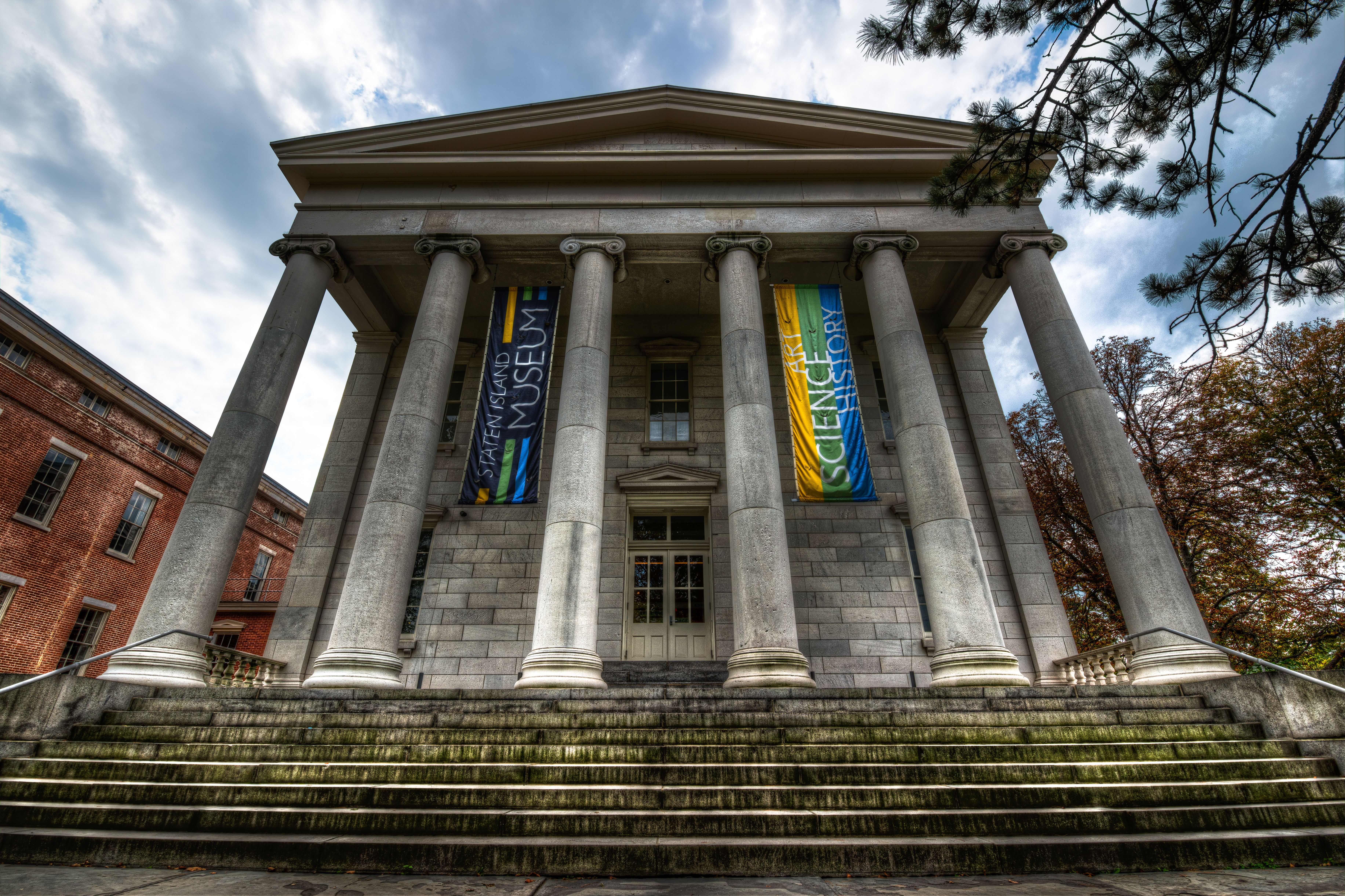 The Staten Island Museum on the grounds of Snug Harbor